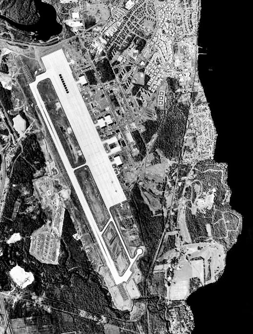 USGS orthophoto of former Plattsburgh Air Force Base in Plattsburgh, New York, United States.